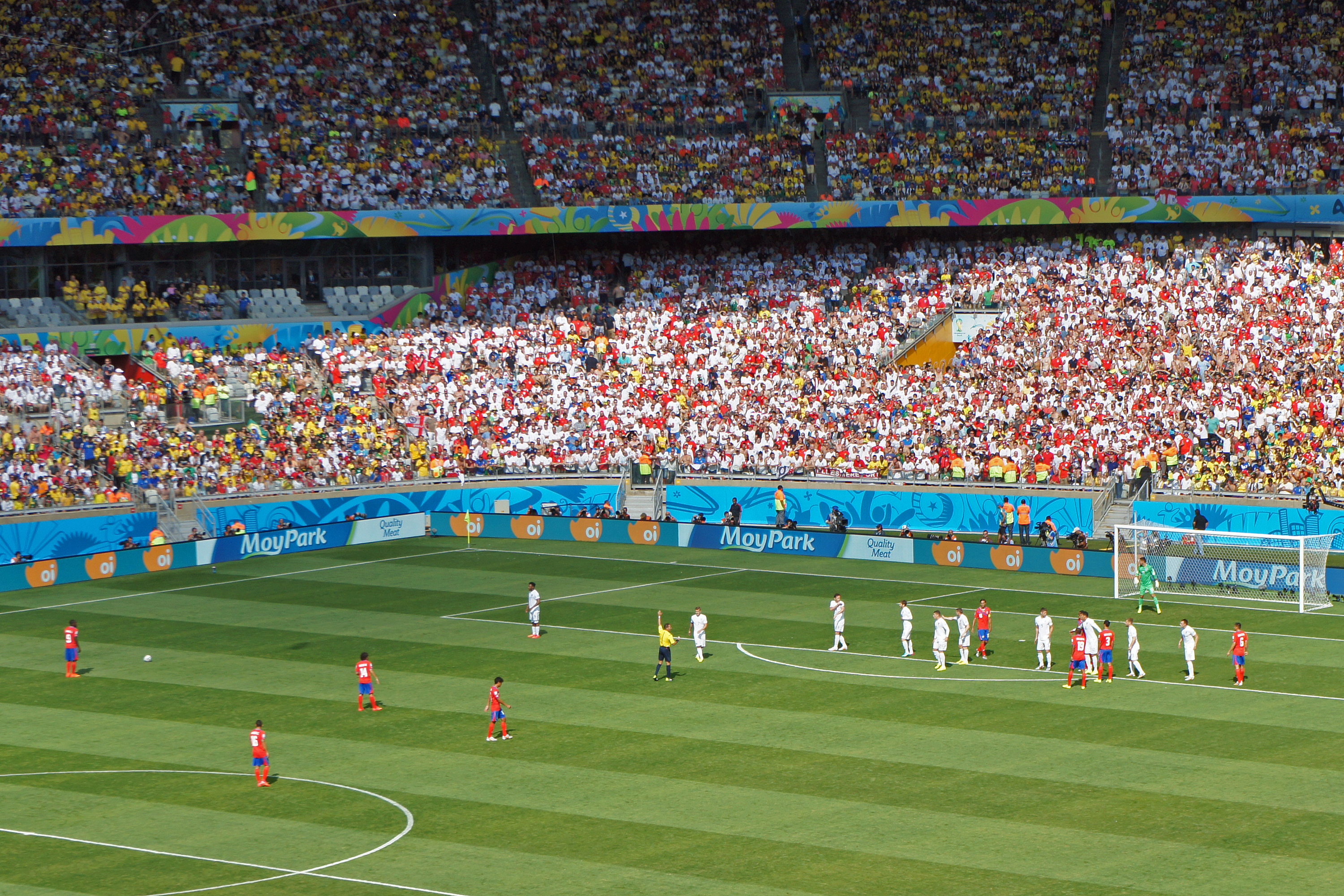 Free kick druing the Costa Rica and England match at the FIFA World Cup 2014 at Estádio Mineirão in Belo Horizonte, Brazil.